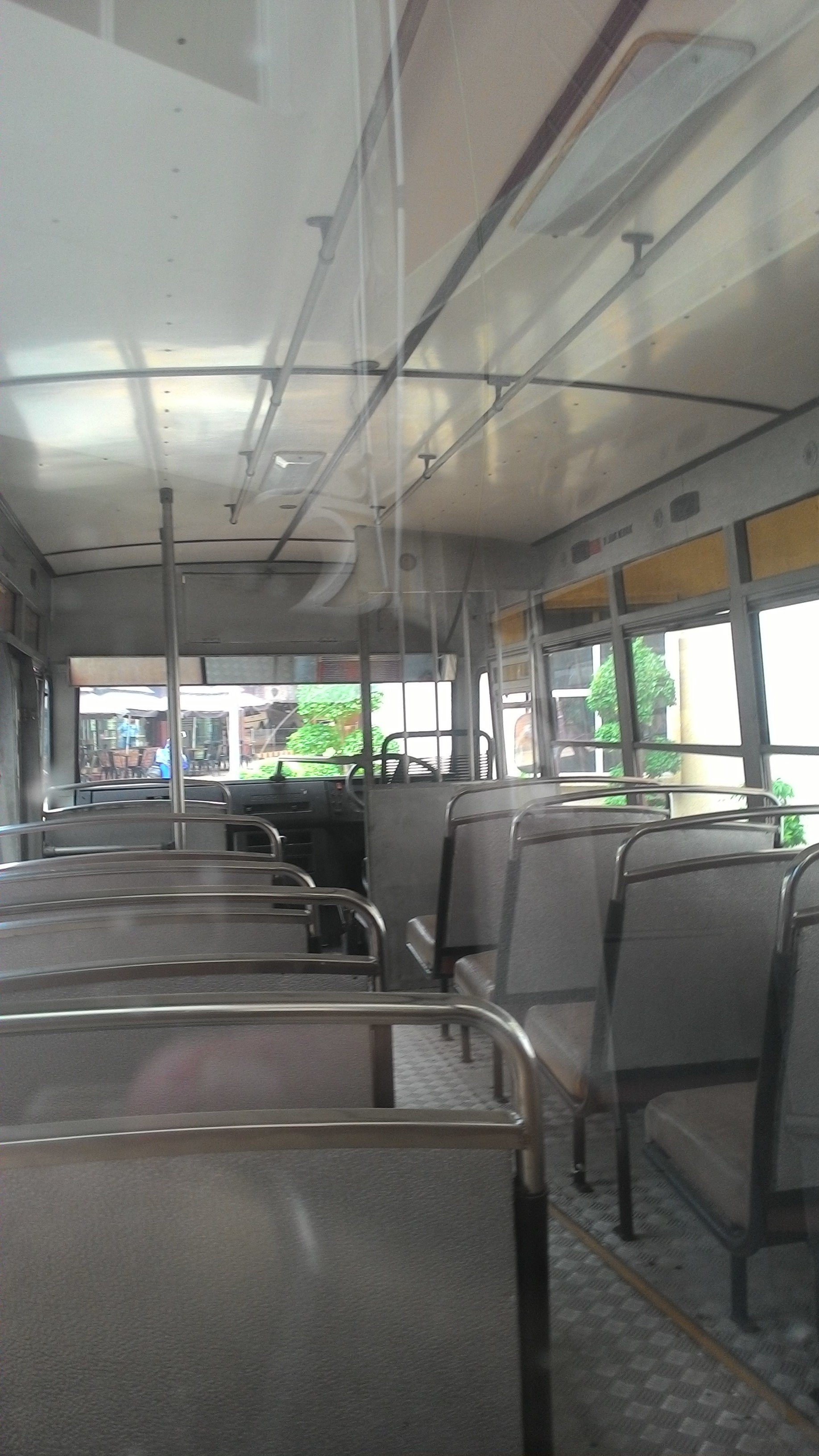 Interior of Bus